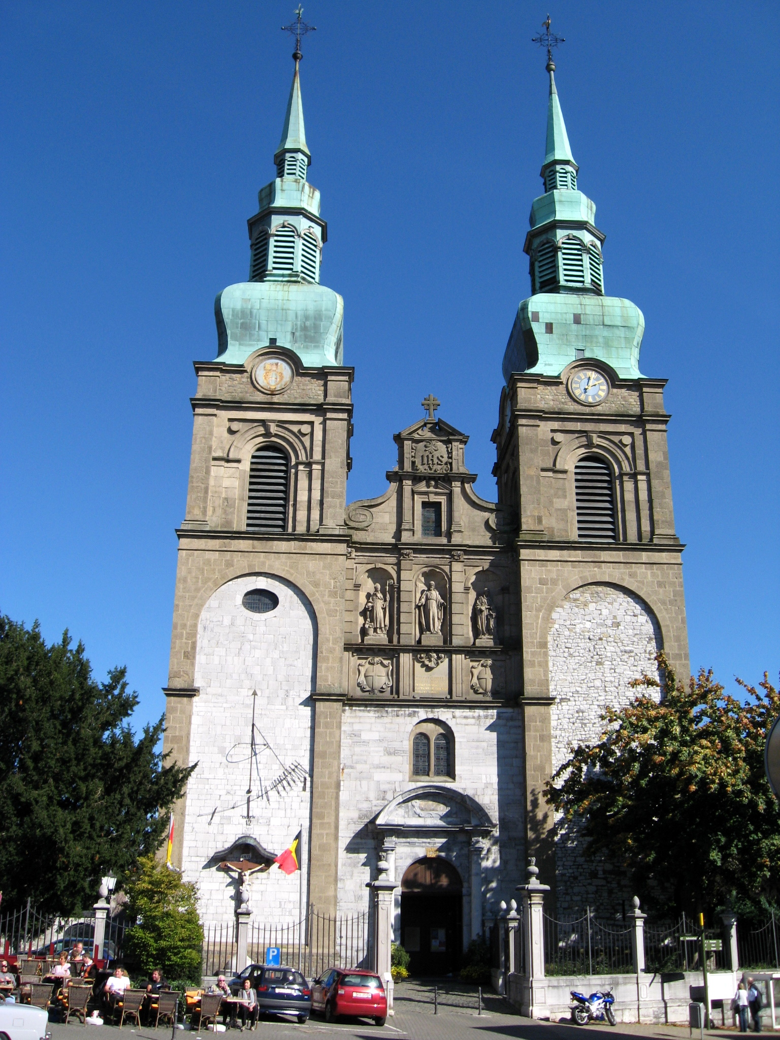 Church of Saint Nicolas in Eupen, Liège, Belgium